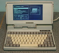 USSR made laptop Elektronika MC 1504